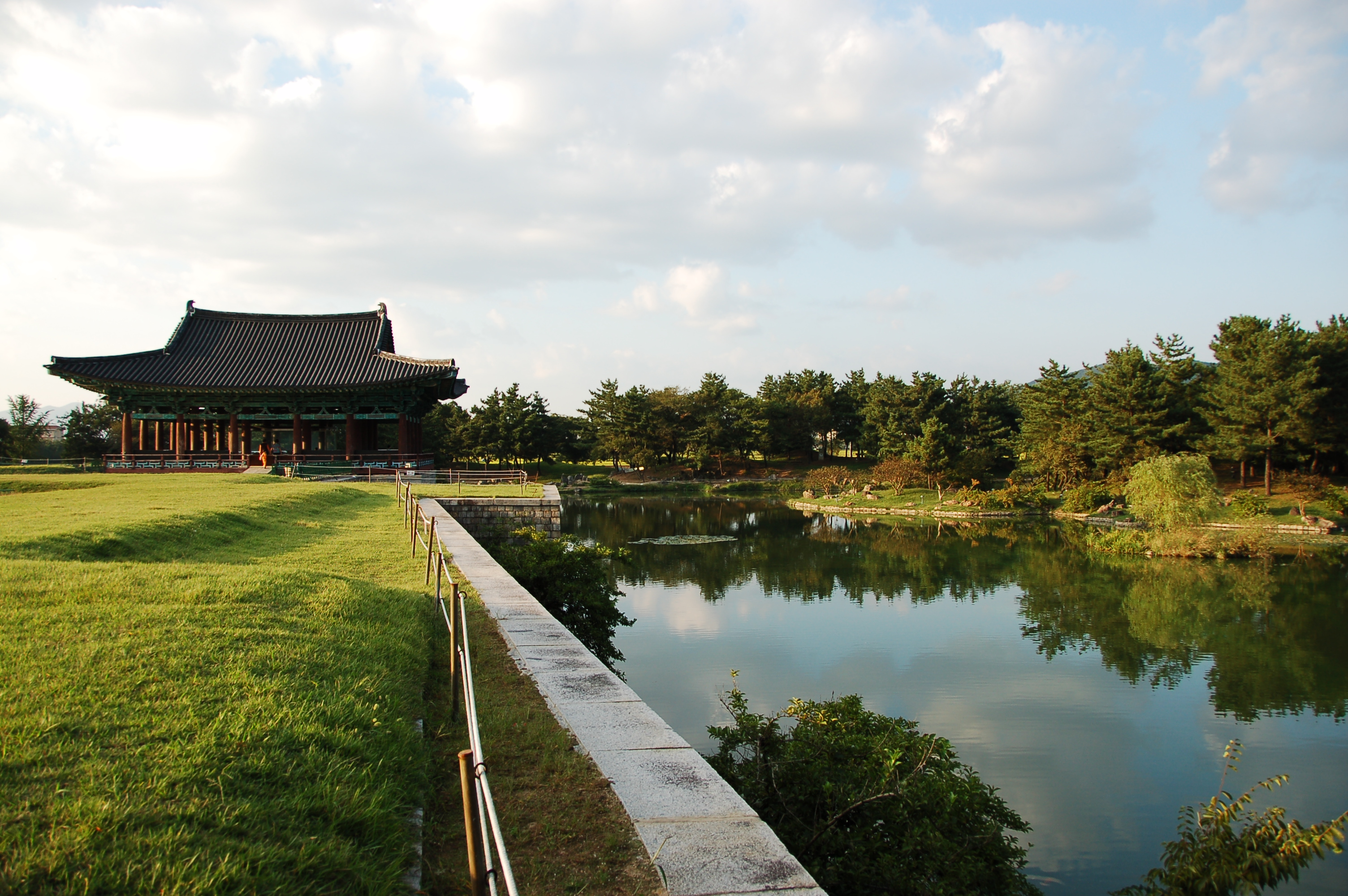 Anapji, an artificial pond located in Gyeongju National Park, South Korea. Gyeongju was the ancient capital of the Silla kingdom and the pond was constructed by order of King Munmu in 674 CE. Anapji is situated at the northeast edge of the Banwolseong palace site, in central Gyeongju. It contains three small islands.